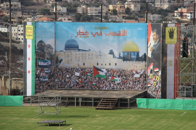 The platform of al-Aqsa in Danger Festival of 18.